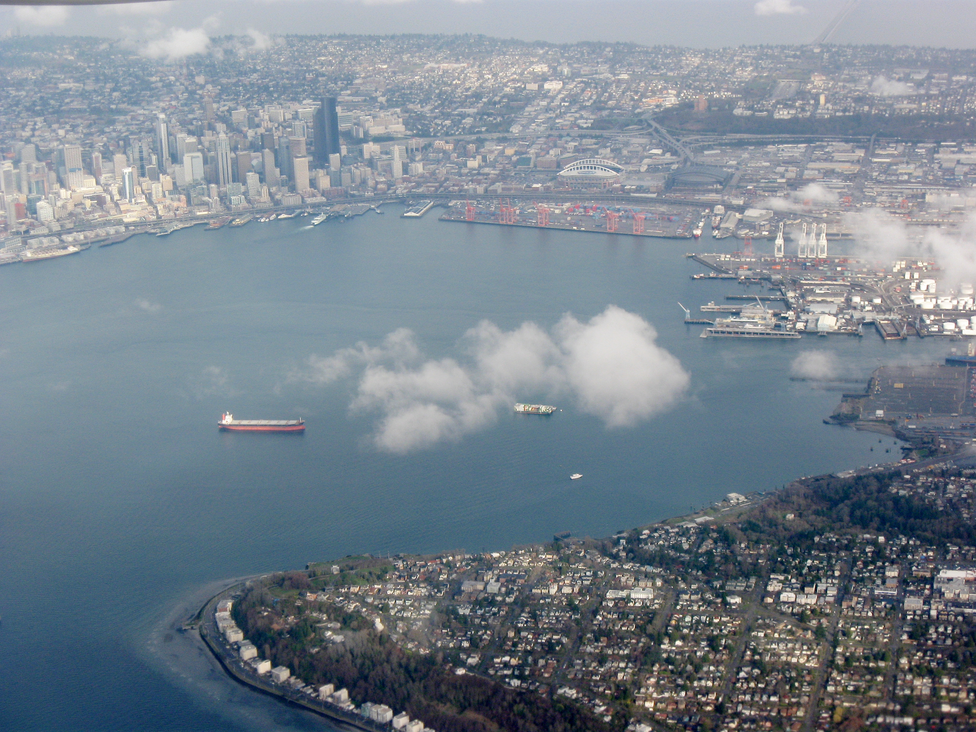 Aerial view of Elliott Bay in Seattle, facing east. Downtown in upper left. Duwamish Head at bottom. Harbor Island in right center.